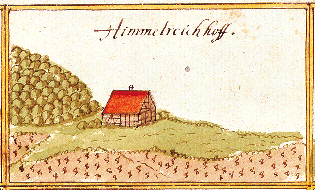 View of Immerich, Waiblingen, from the forest register books created by Andreas Kieser